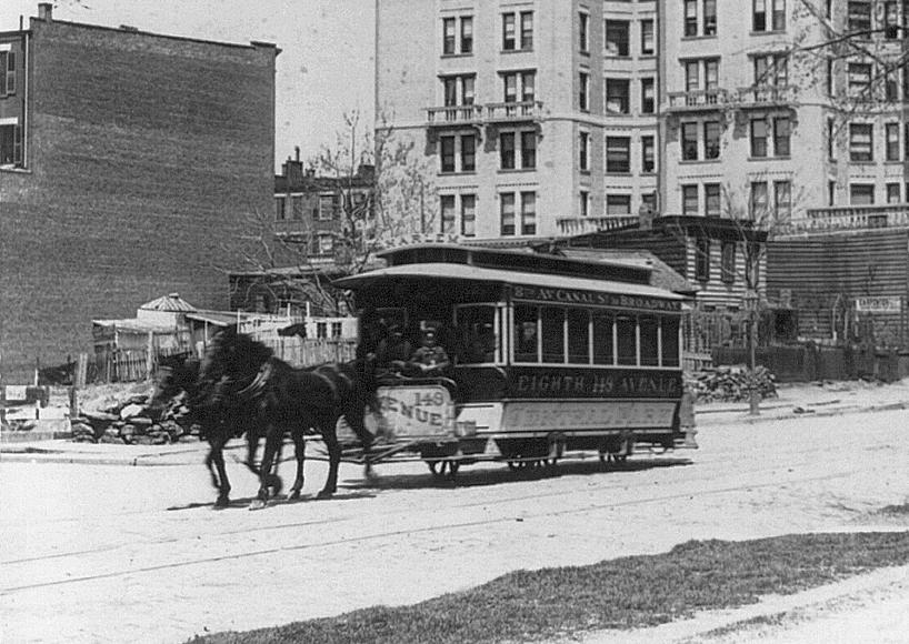 Horse-drawn streetcar no. 148 of a New York City system